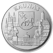 10 Litas coin issued to commemorate Kaunas (From the series "Lithuanian Cities") Alloy of copper and nickel (Cu 75%, Ni 25%) Quality proof Diameter 28.70 mm Weight 13.15 g The words on the edge of the coin: LAISVAS BŪDAMAS, LAISVĖS NEIŠSIŽADĖSI (A FREE MAN WILL NEVER GIVE UP FREEDOM) The designer of the coin is Rimantas Eidejus Mintage 7,500 pcs Issued 1999 Distribution terminated 2004 Distributed 6,028 pcs The coin was minted at the state enterprise Lithuanian Mint.